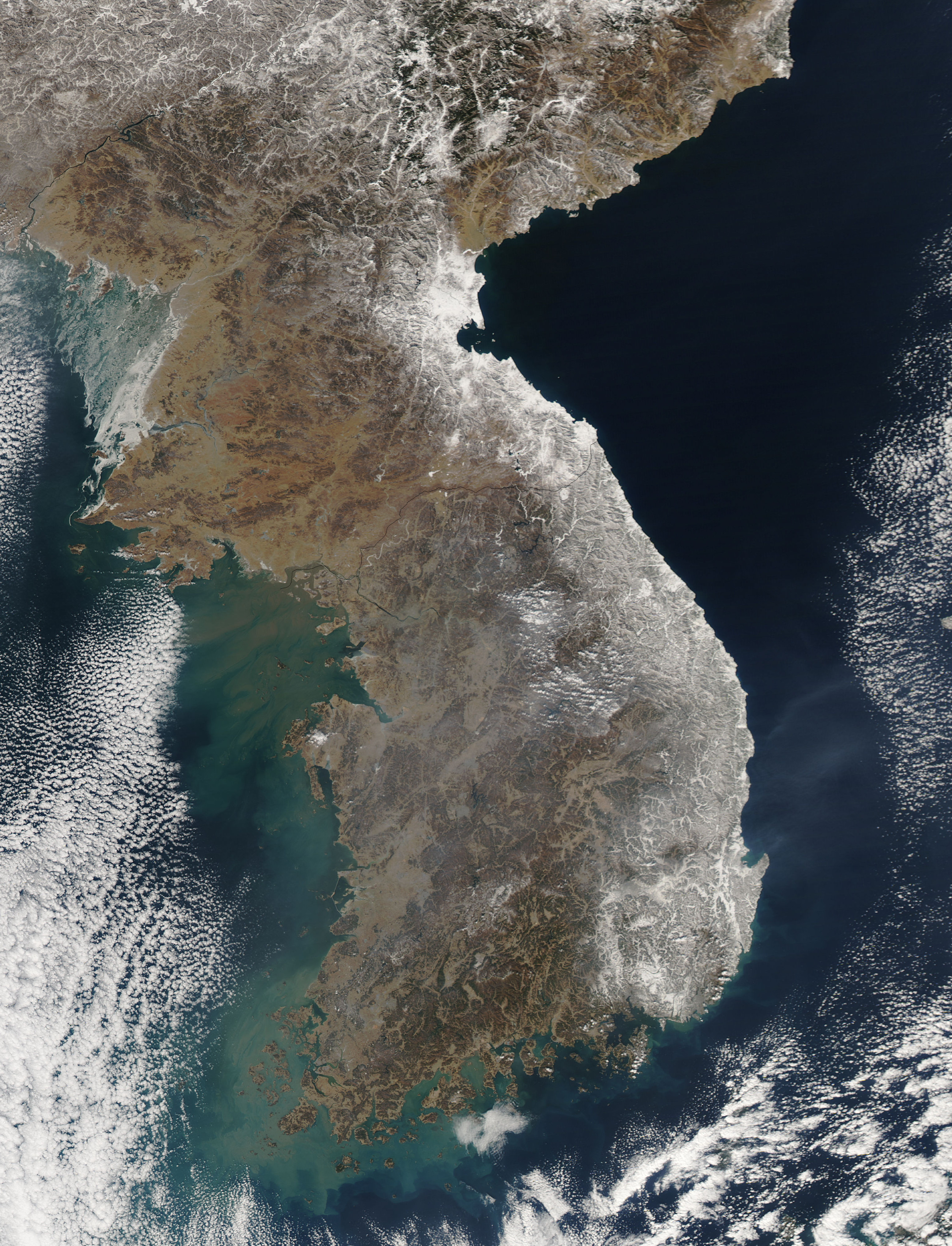 Natural-colour view of the Korean Peninsula. East of Seoul, clusters of small white clouds cast shadows onto the surface below. But most of the white on the peninsula is snow.